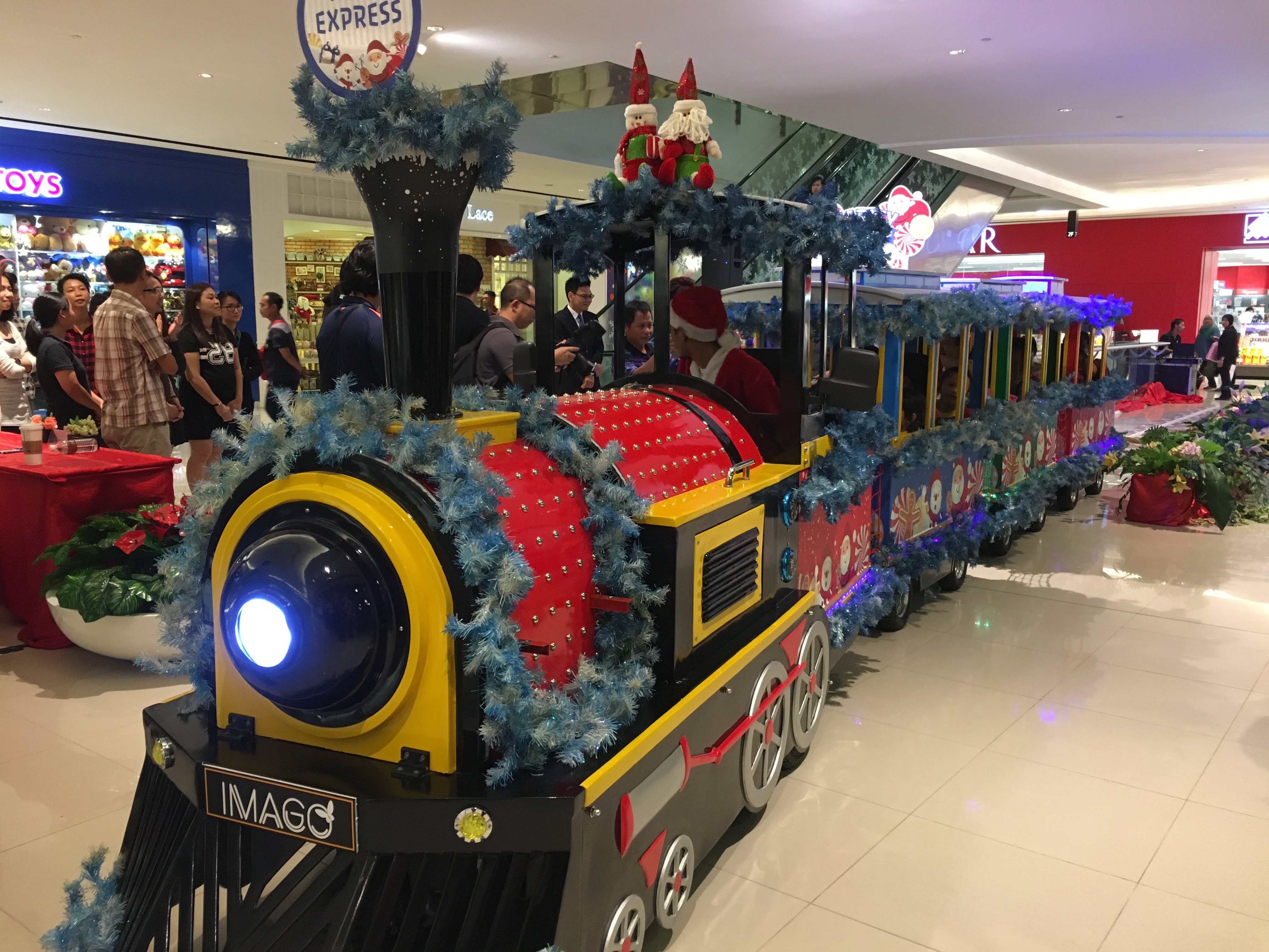 IMAGO Hope Express Charity Drive